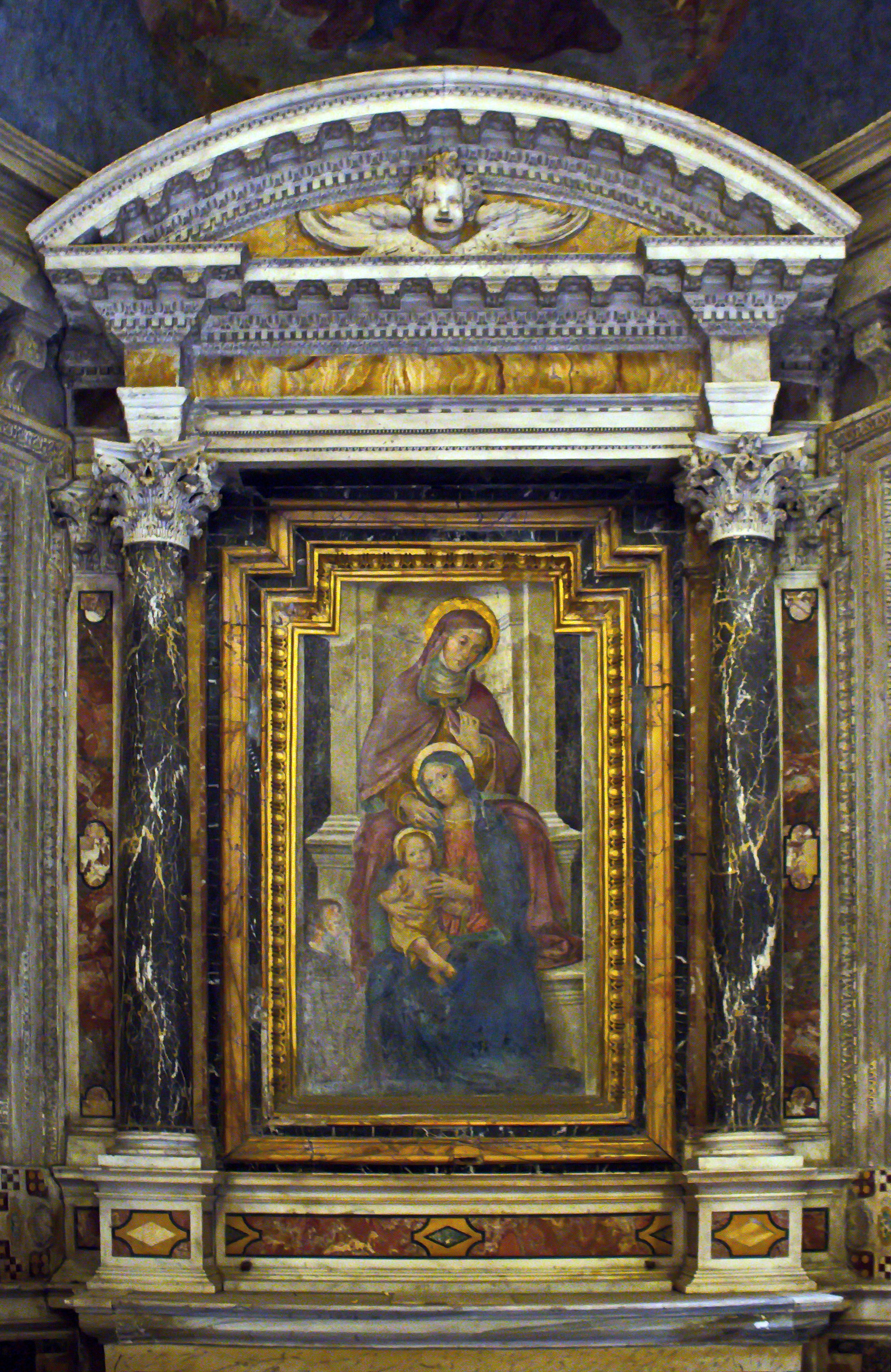 San Pietro in Montorio (Rome); Saint Anne; School of Antoniazzo Romano